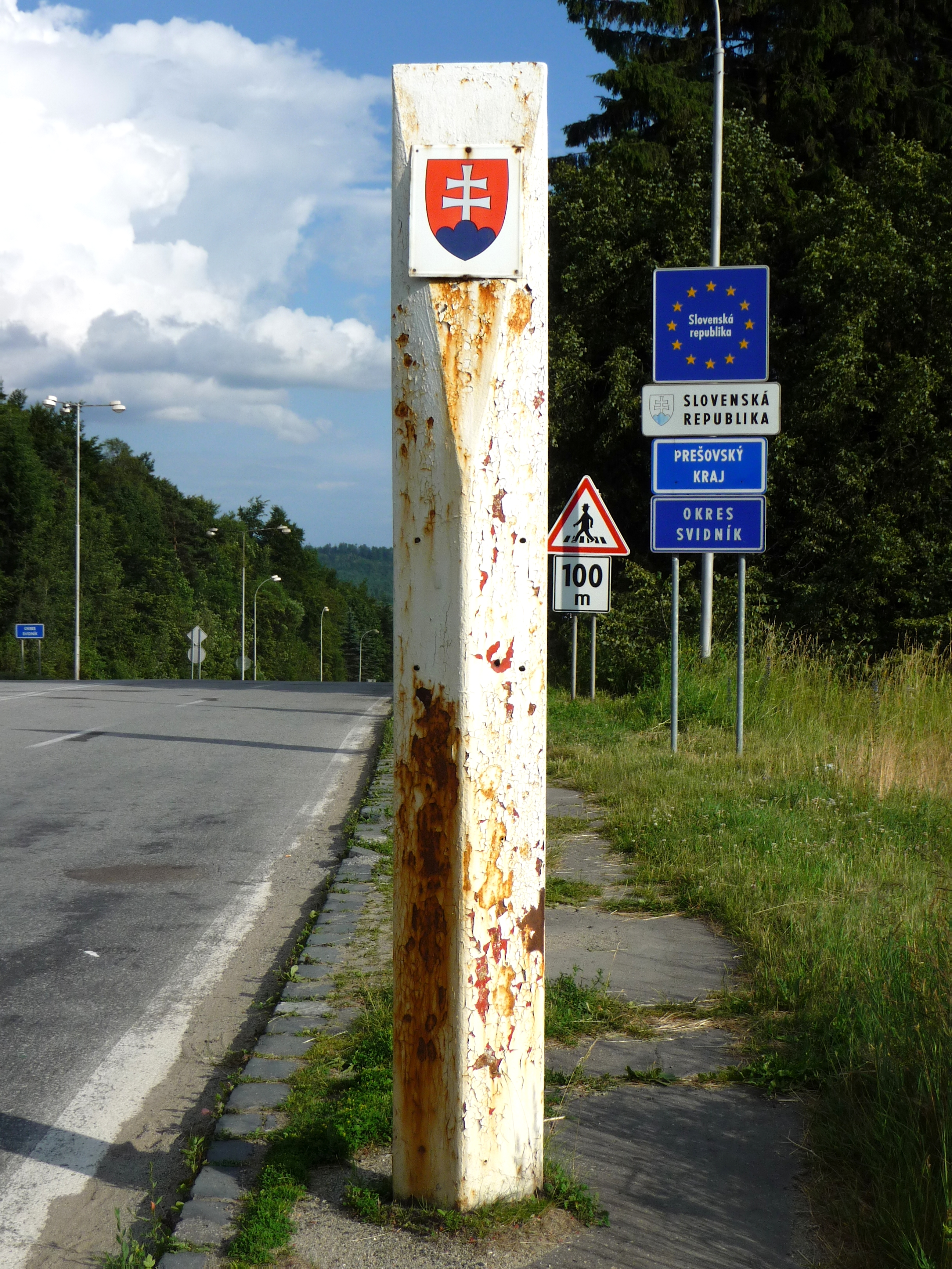 Former Czechoslovak Frontier Orientation Post in the Dukla Pass, now painted white and with Slovak coat of arms (Prešov Region, Slovakia).